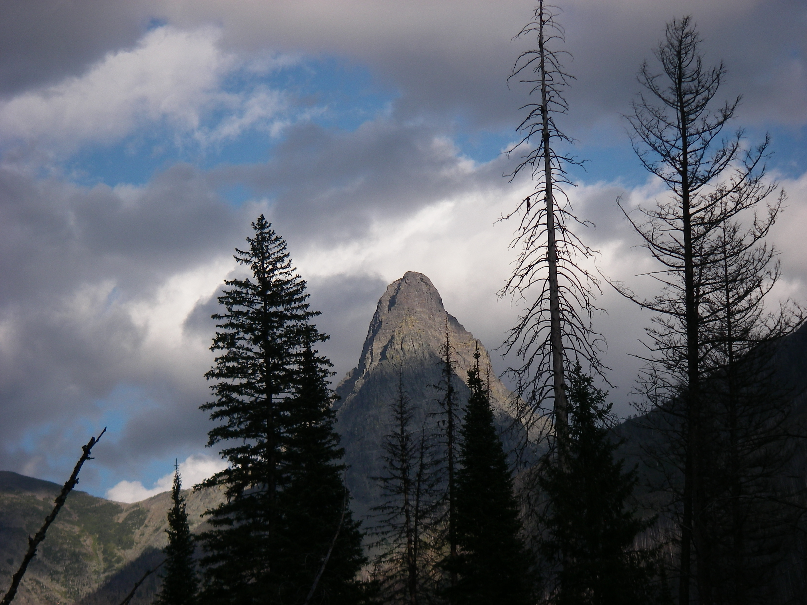 Mount Saint Nicholas (2858 m), Glacier National Park, Flathead County, Montana.